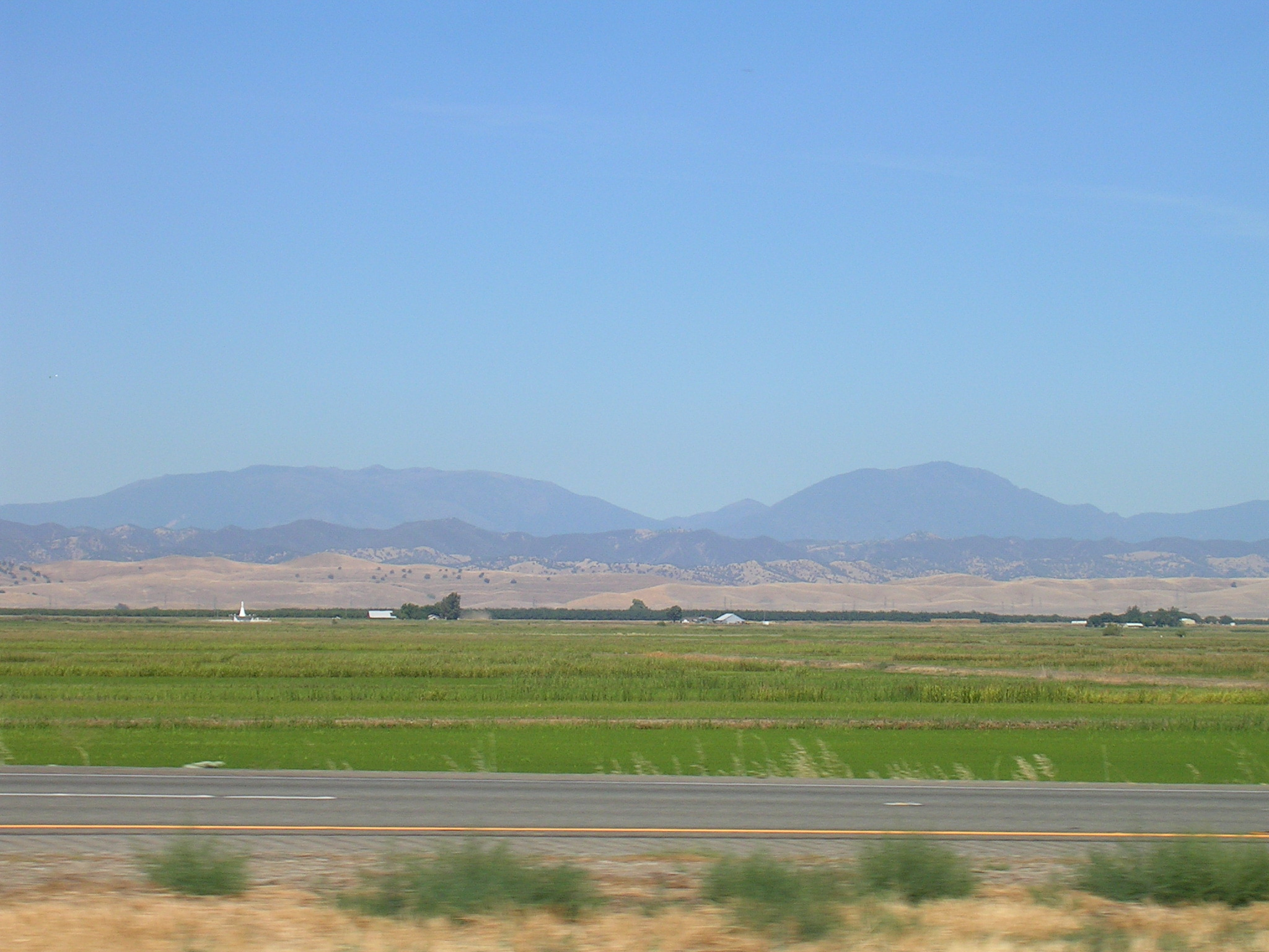 Snow Mountain (left) and Saint John Mountain (right). Northbound Interstate 5 between Maxwell, California and Willows, California